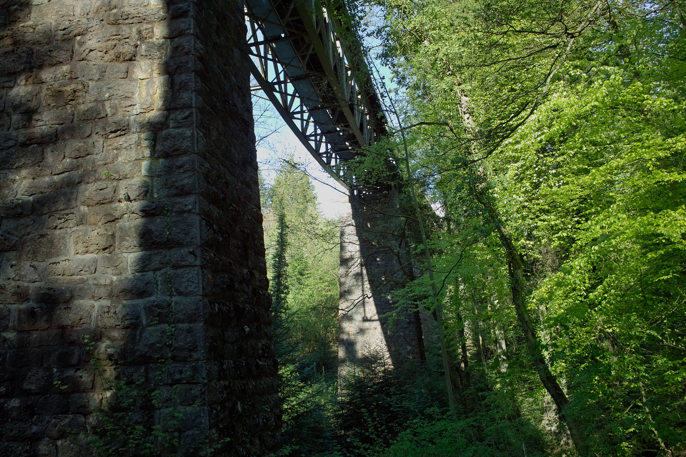 Geisslochviadukt: A railway viaduct of the Solothurn-Münster-Bahn (railway line Solothurn - Moutier) at Bellach, canton of Solothurn, Switzerland.